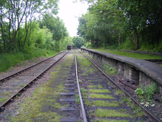 Sunniside Station on the Tanfield Railway in County Durham